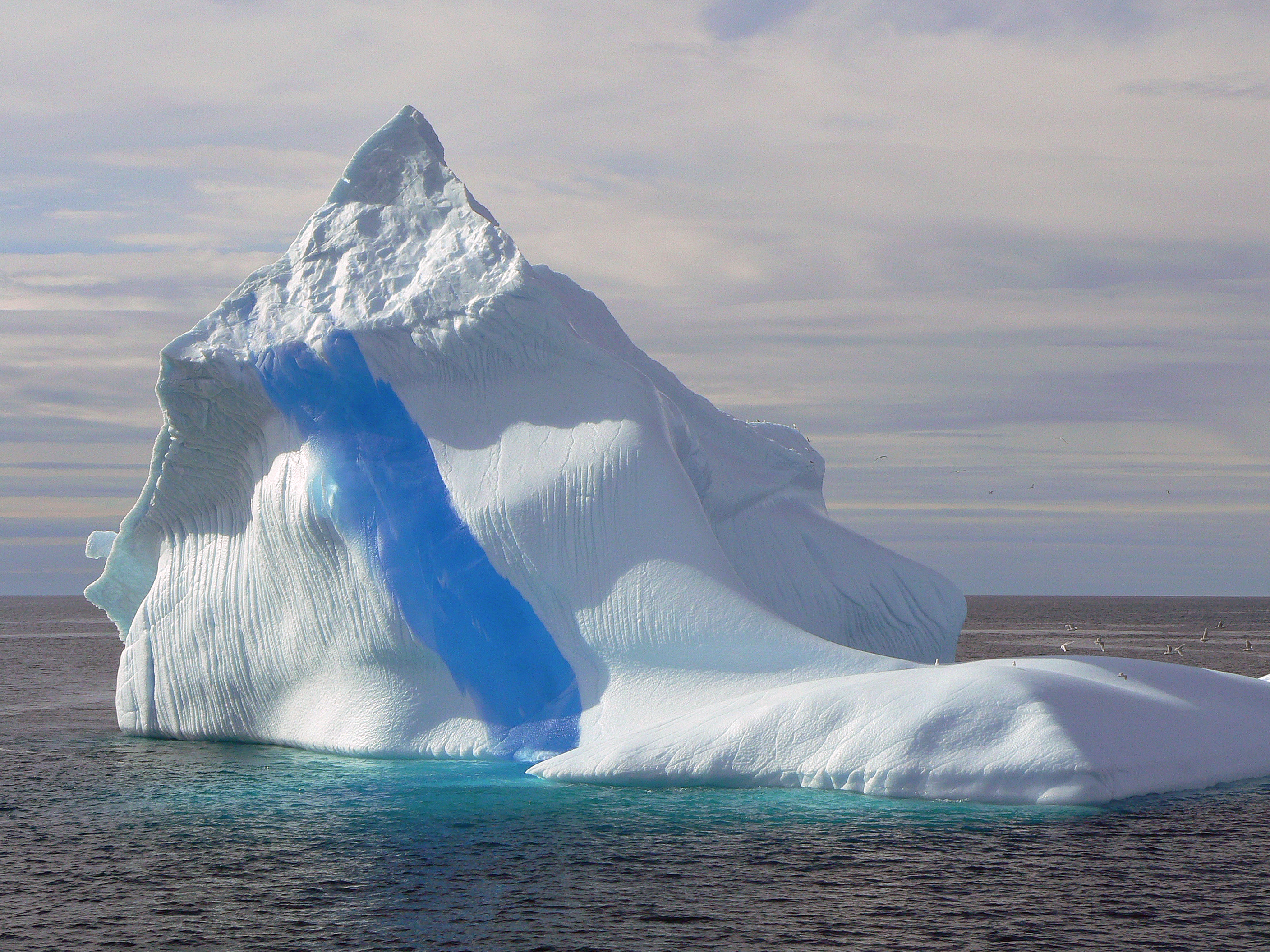 Iceberg with blue band